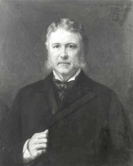 Chester Alan Arthur Artist George Peter Alexander Healy, 15 Jul 1813 - 24 Jun 1894 Sitter Chester Alan Arthur, 5 Oct 1829 - 18 Nov 1886 Date 1884 Type Painting Medium Oil on canvas Dimensions Sight: 75 x 62.4cm (29 1/2 x 24 9/16") Credit Line Current Owner: Newberry Library Website: Object number NL 085 Data Source Catalog of American Portraits See more items in Catalog of American Portraits